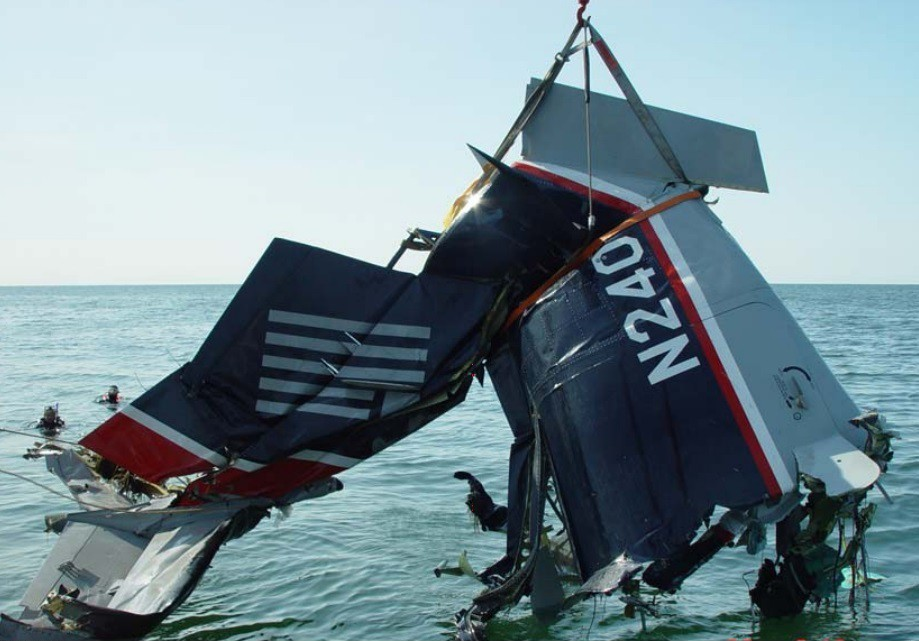 Colgan Air Flight 9446（N240CJ）wreckage2